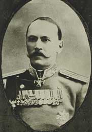 Thadeus Wasilievitsch von Sievers Baltic German who served as general of the Russian army during World War I.